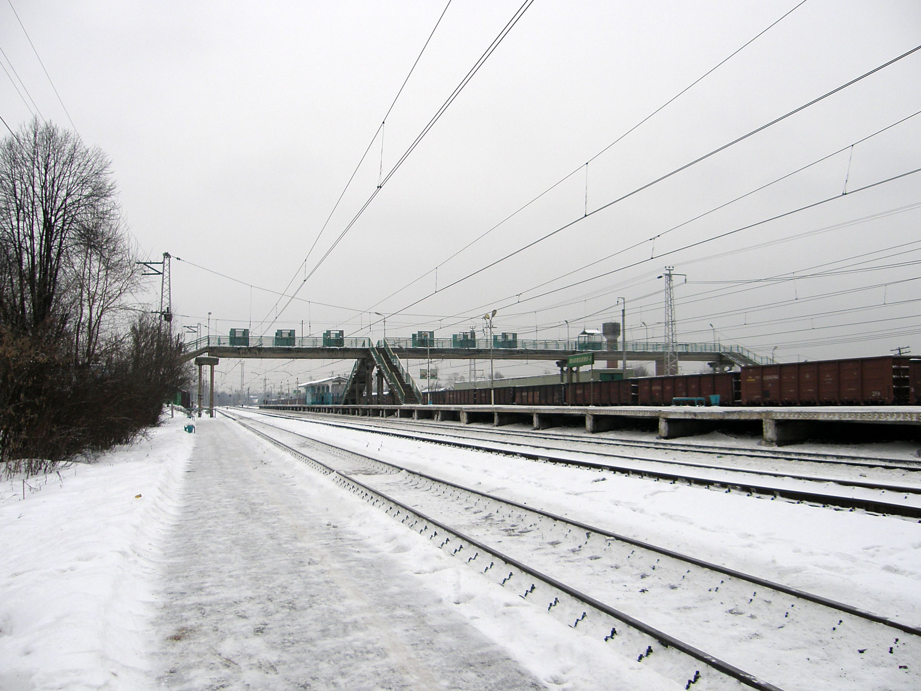 Manihino-1 railway station